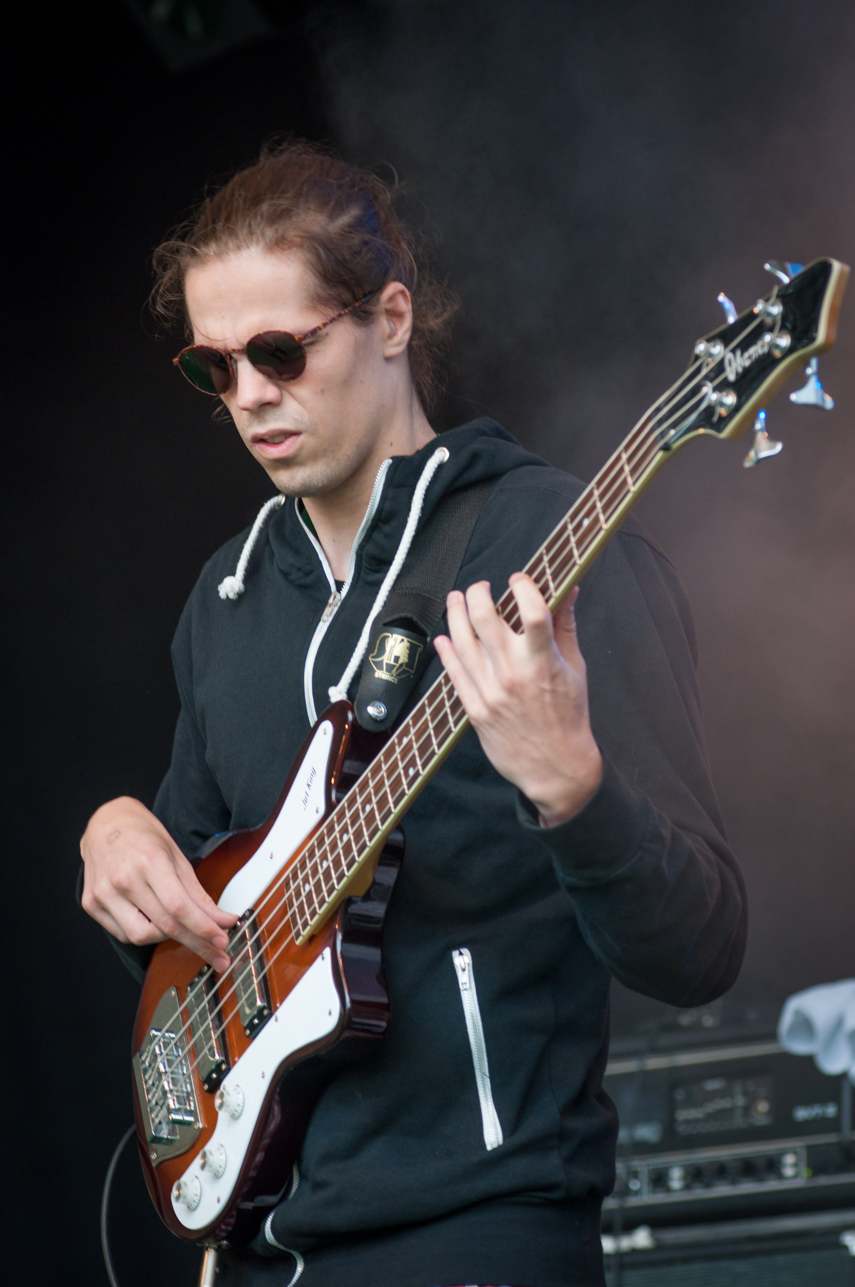 Finnish bassist Antti "Pianomies" Salimäki performing as a part of Rokkilokin Rentoshow at the 2011 Ilosaarirock festival in Joensuu, Finland.